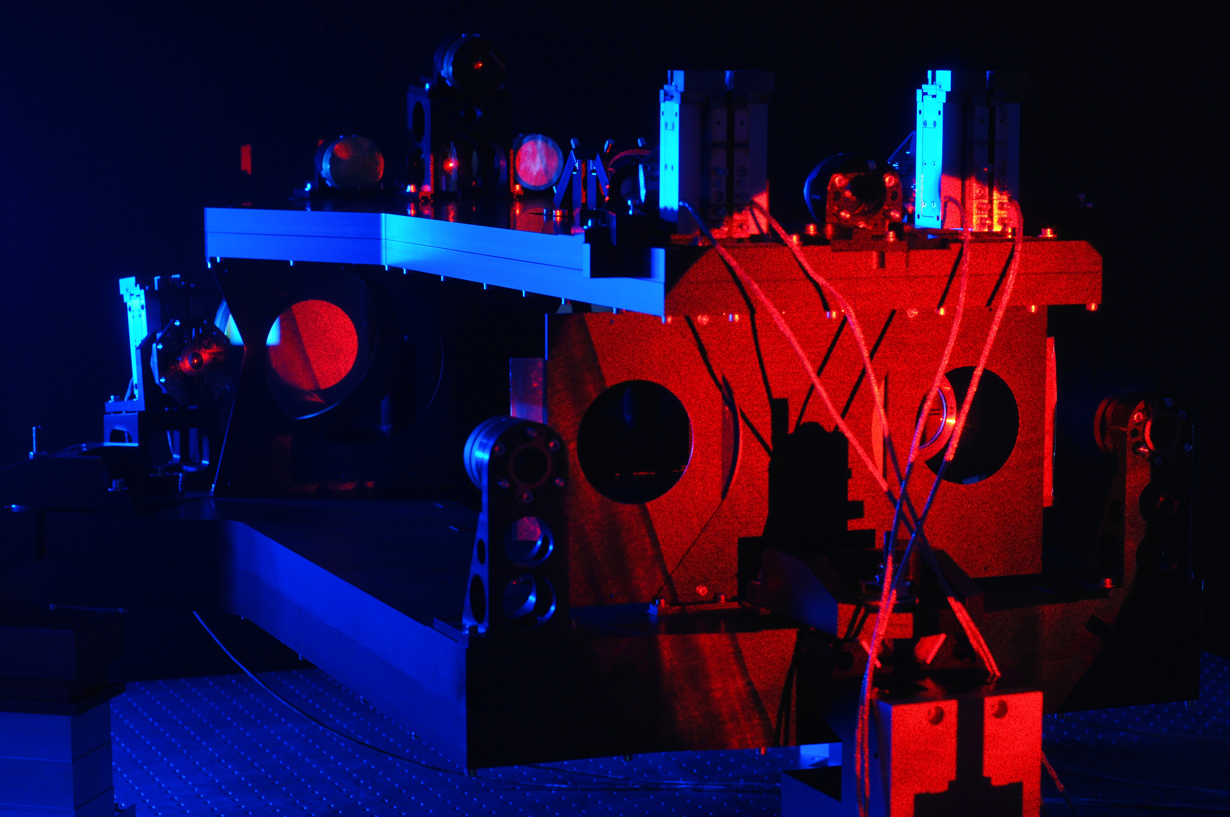 This image shows one of a series of sophisticated optical and mechanical systems called star separators for the Very Large Telescope Interferometer (VLTI). These systems from the Dutch research institute TNO will allow the VLTI’s future instruments to observe much fainter objects than is possible at present. In this picture the system is under test.